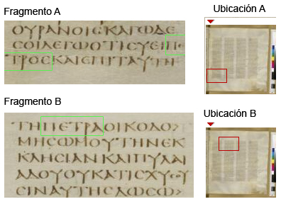 Codex Sinaiticus , Mathew 16:18